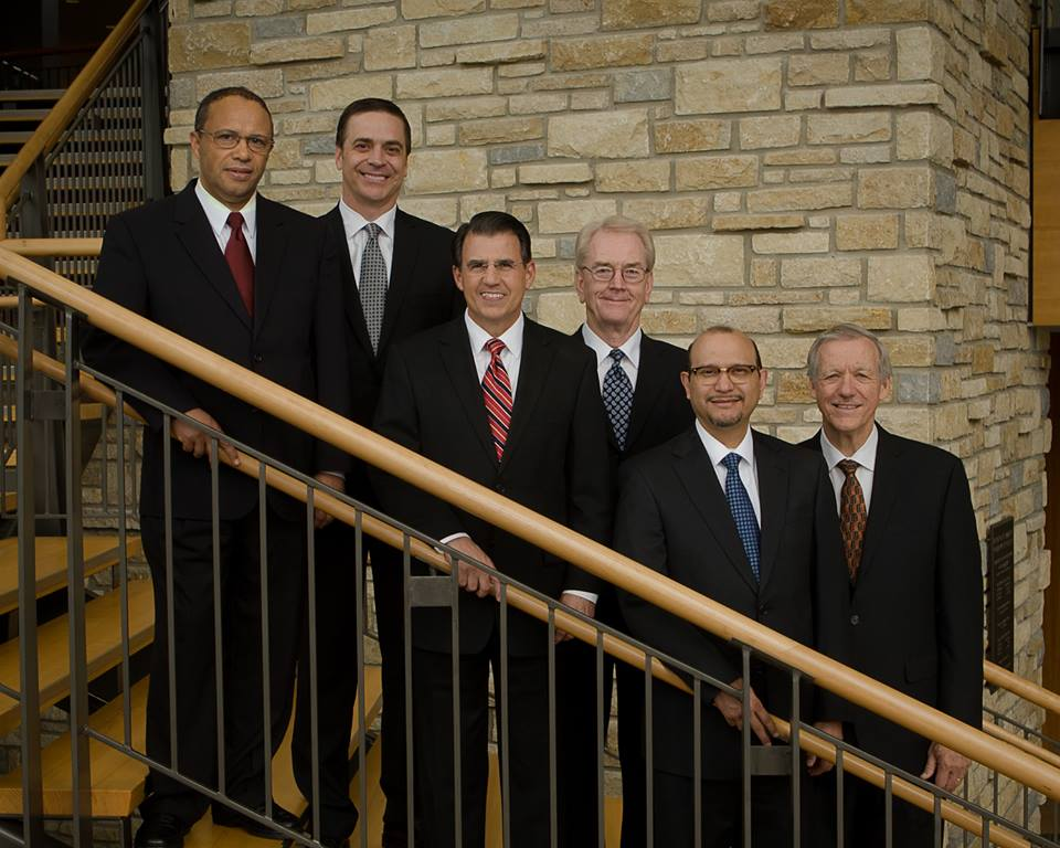 Board of Church of the Nazarene